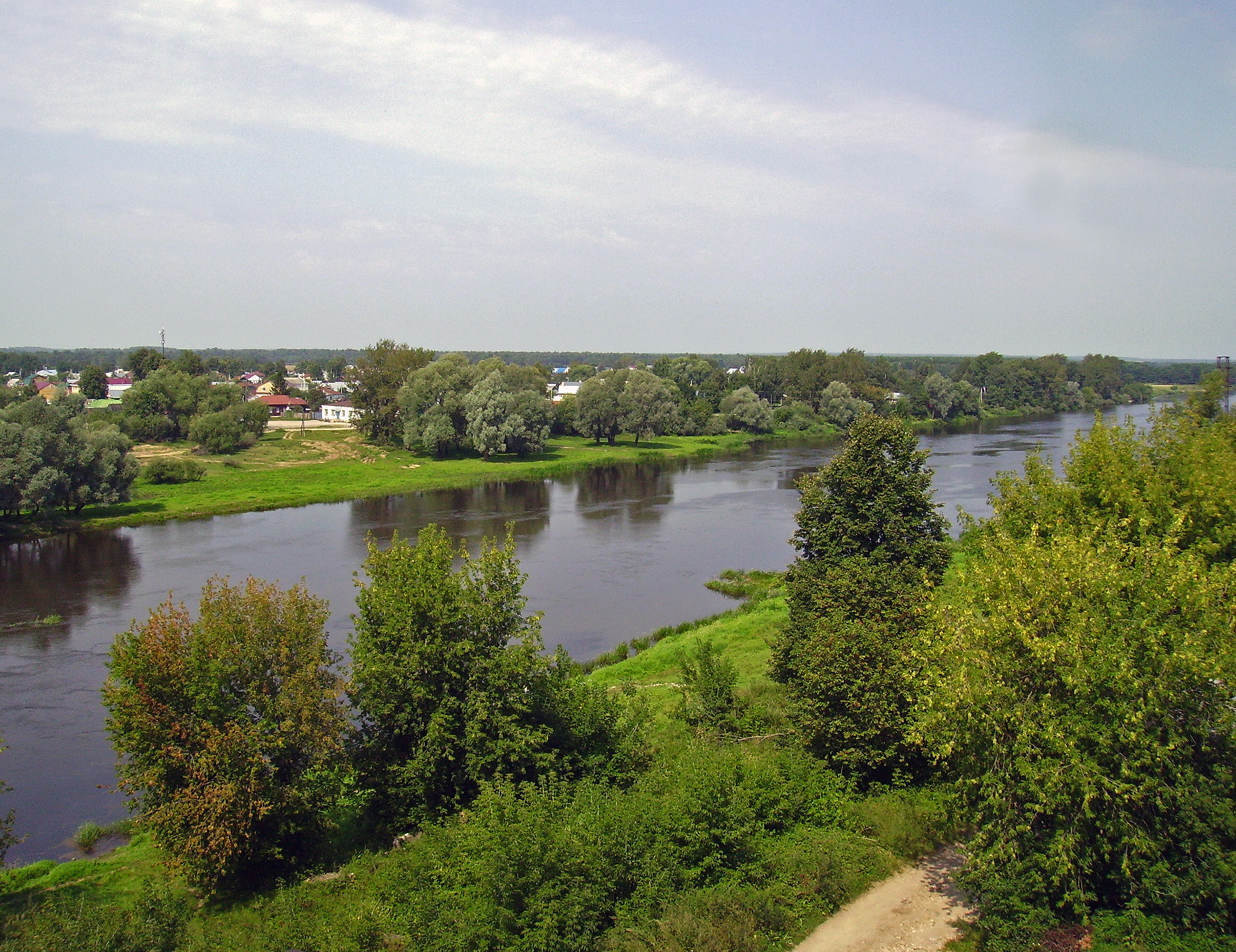 Kovrov. View to Zarechnaya Sloboda Side & Klyazma River